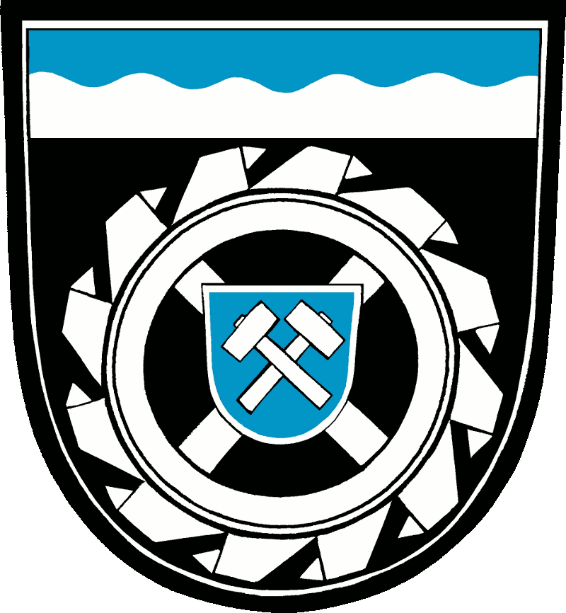 Coat of arms of Amt Altdöbern